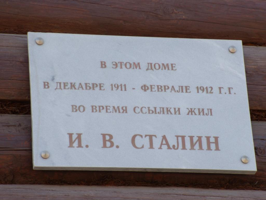 Commemorative plaque for Stalin 1911 1912